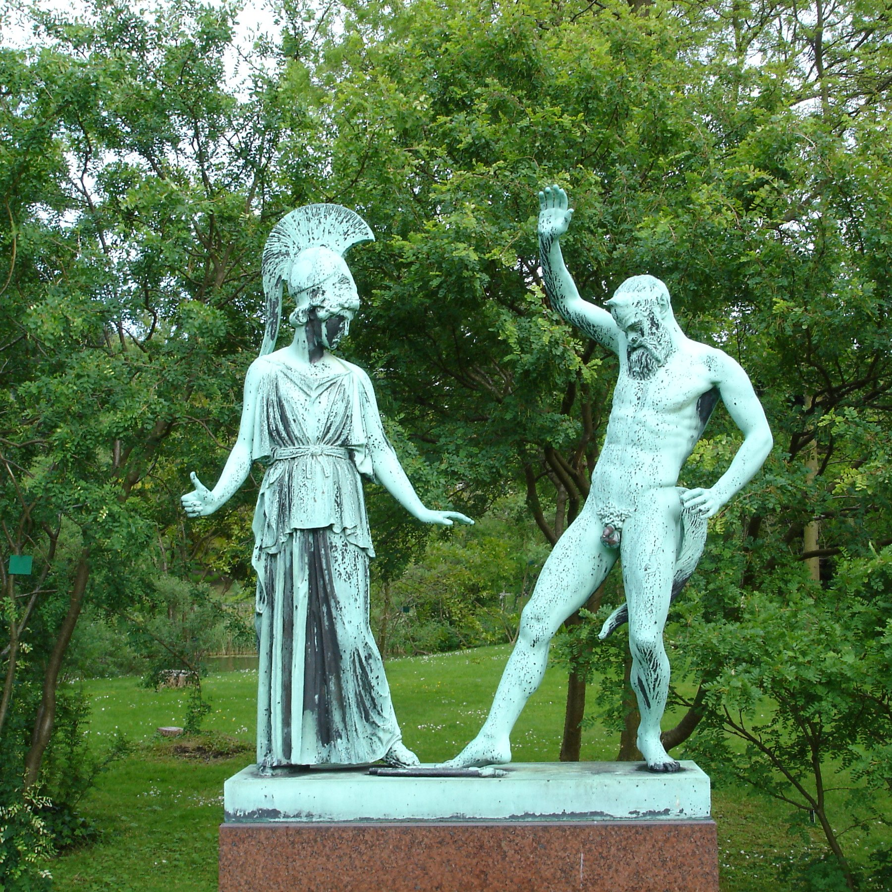 Statue of Athena and Marsyas by Myron in Botanic Garden, Copenhagen, Denmark